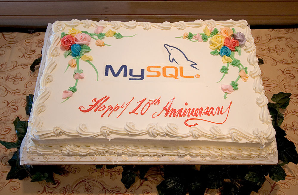 The 10th Anniversary MySQL Birthday Cake. This photograph was taken during the 2005 MySQL Users Conference held April 18-21, 2005 in Santa Clara, California. Please give credit as "James Duncan Davidson/O'Reilly Media". Larger resolutions are available, contact mailto: ?subject=MySQL%20Conference%20Photo%20Request for details.MySQL Conference 2005: Birthday Cake